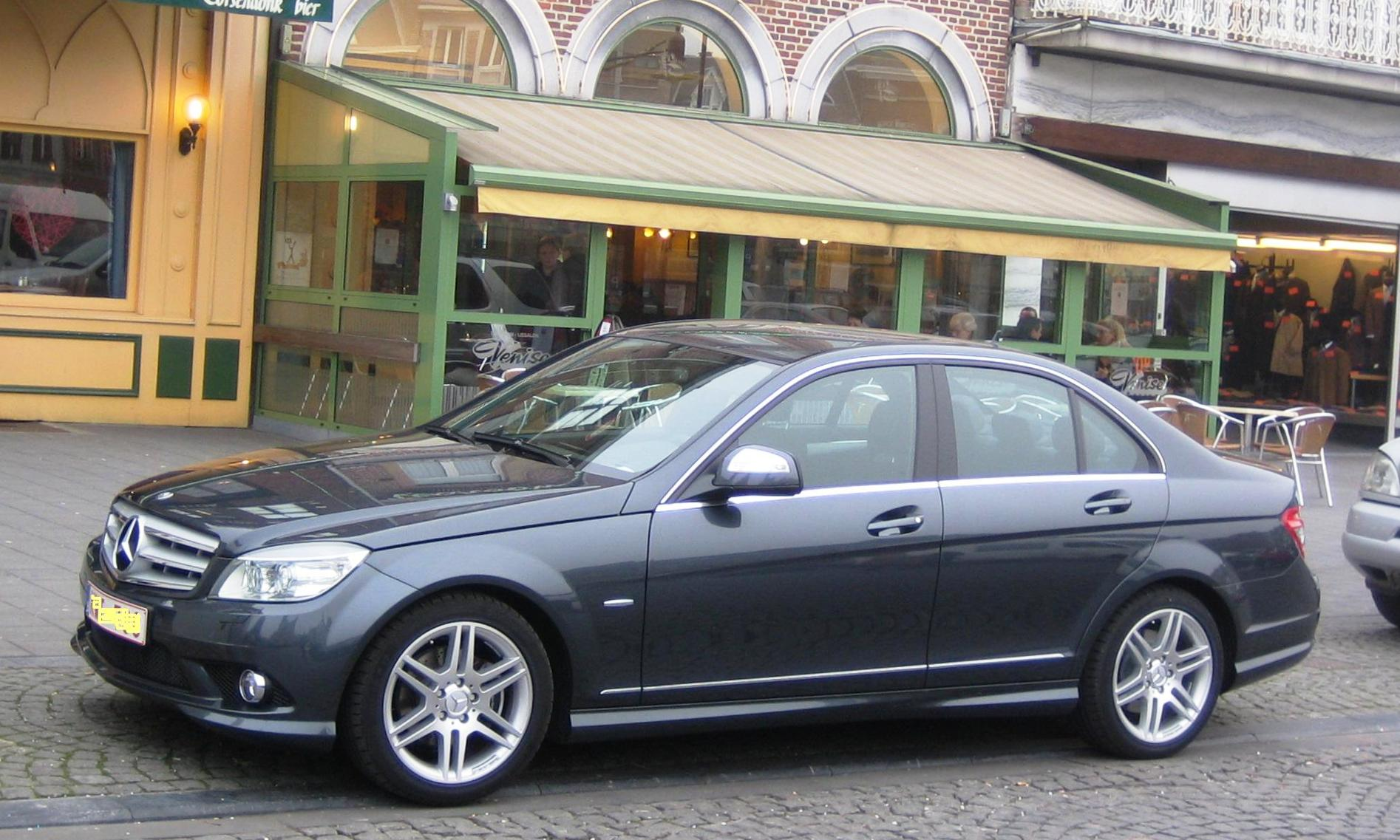 Mercedes Benz W204 AMG outside (rather good) Ice Cream Restaurant